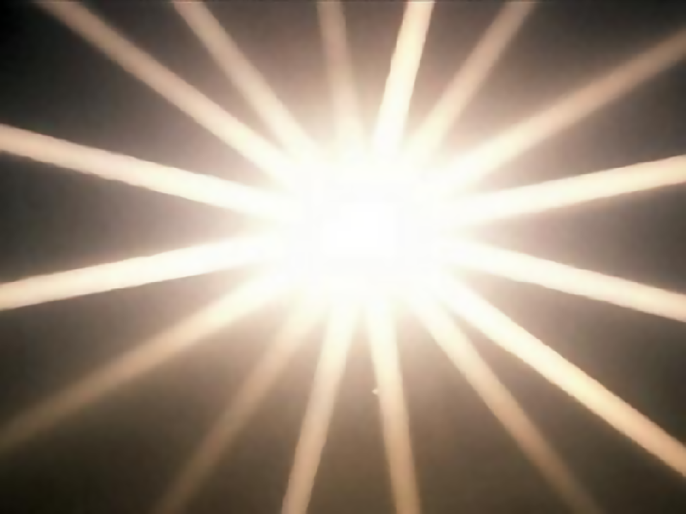 Emanation of light